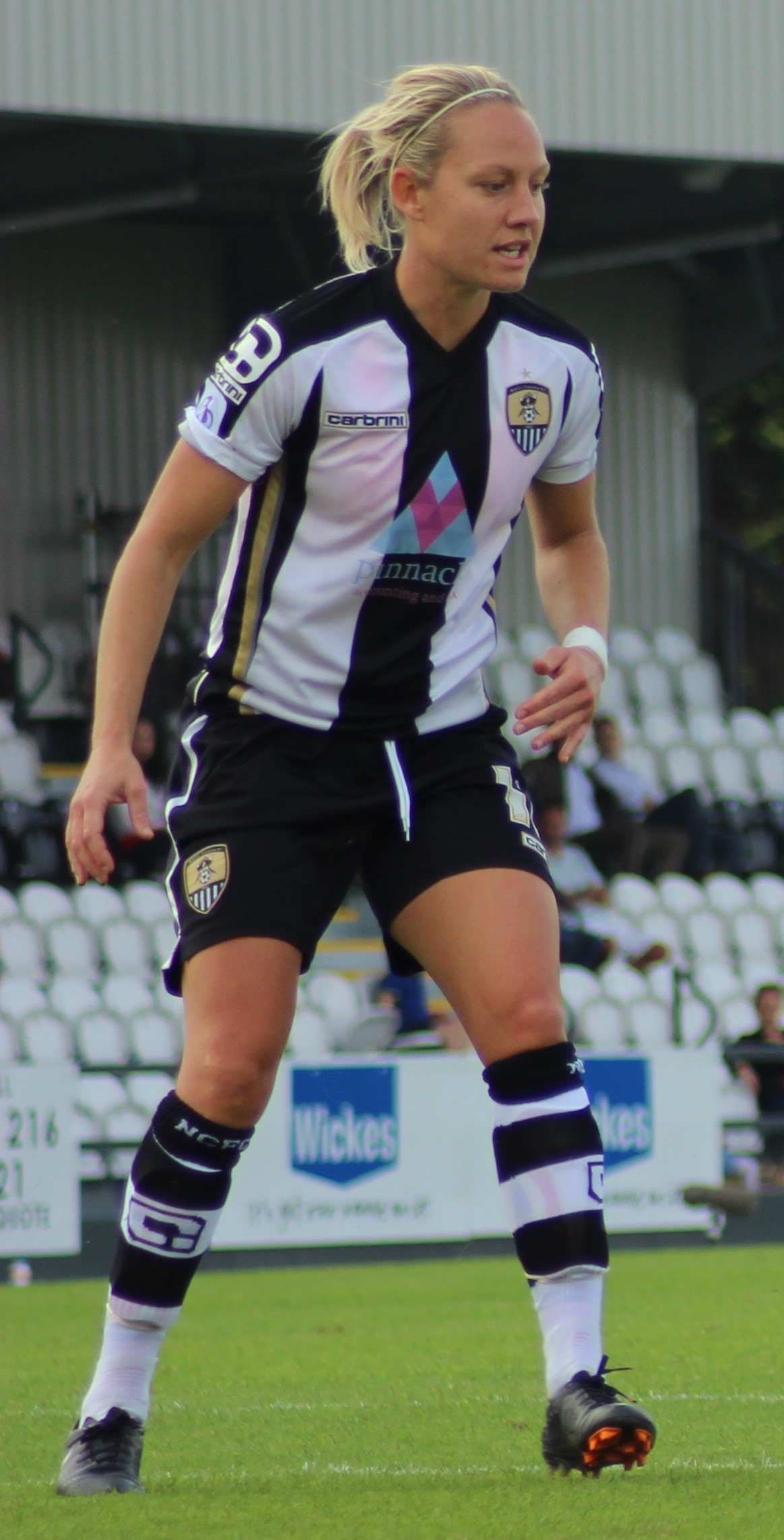 Caroline Weir of Arsenal Ladies scores against Notts County.